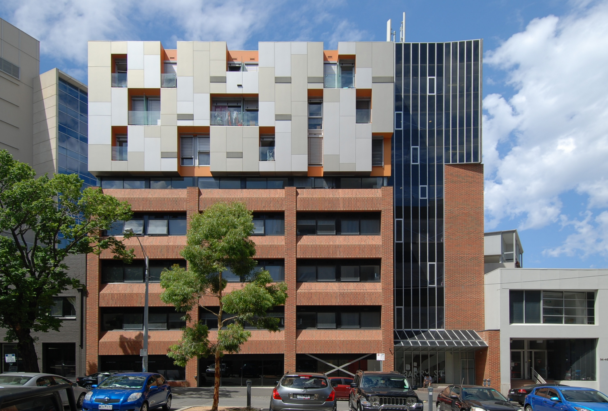 Student housing, Barry St, Carlton, Melbourne. Designed by Hayball.